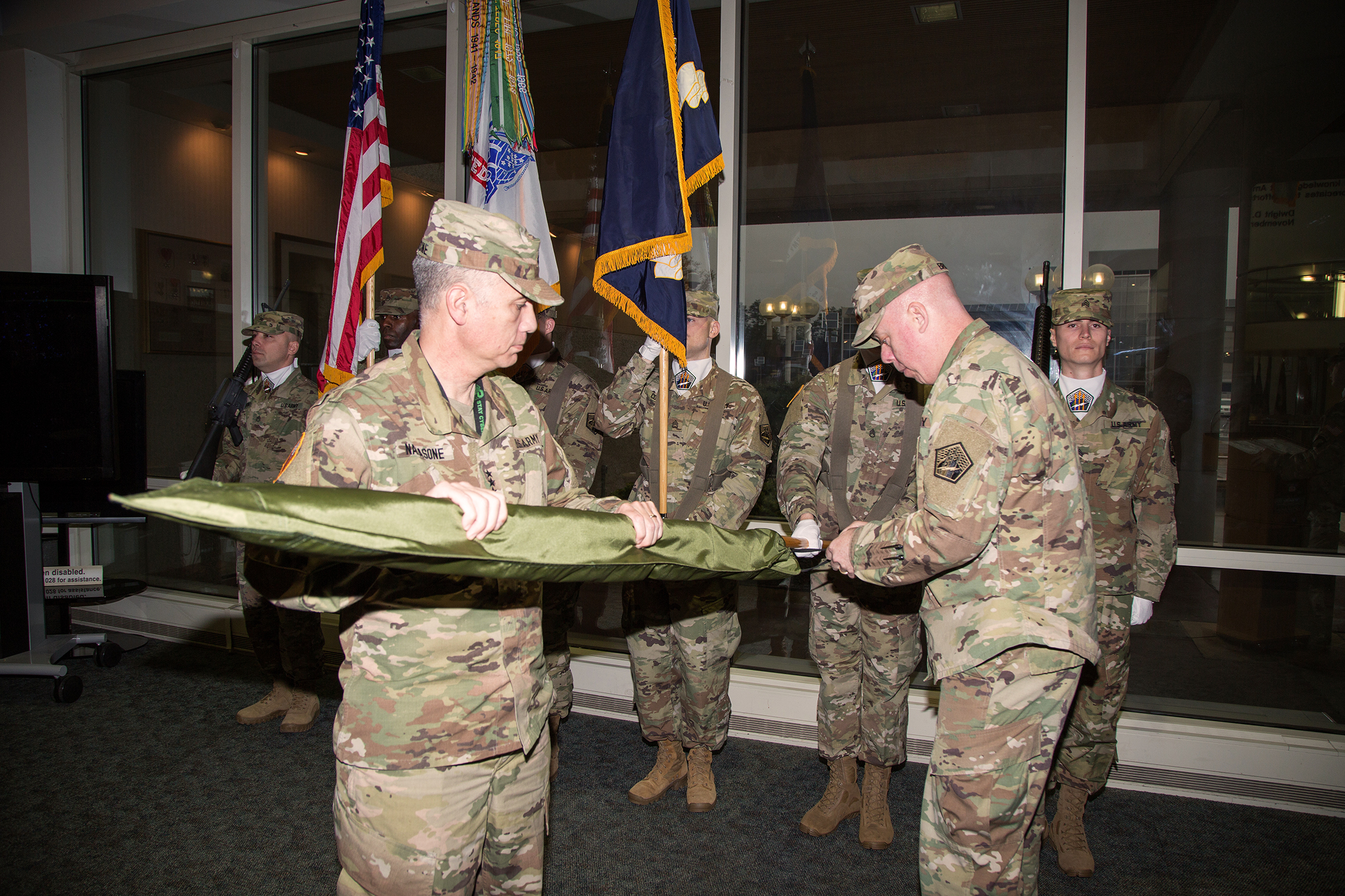 Lt. Gen. Paul M. Nakasone, commander of U.S. Army Cyber Command (left), and ARCYBER Command Sgt. Maj. William G. Bruns case the Second Army colors during a ceremony at Fort Belvoir, Va., March 31. Officially inactivated in January, Second Army has been associated with ARCYBER since the command's creation in 2010.